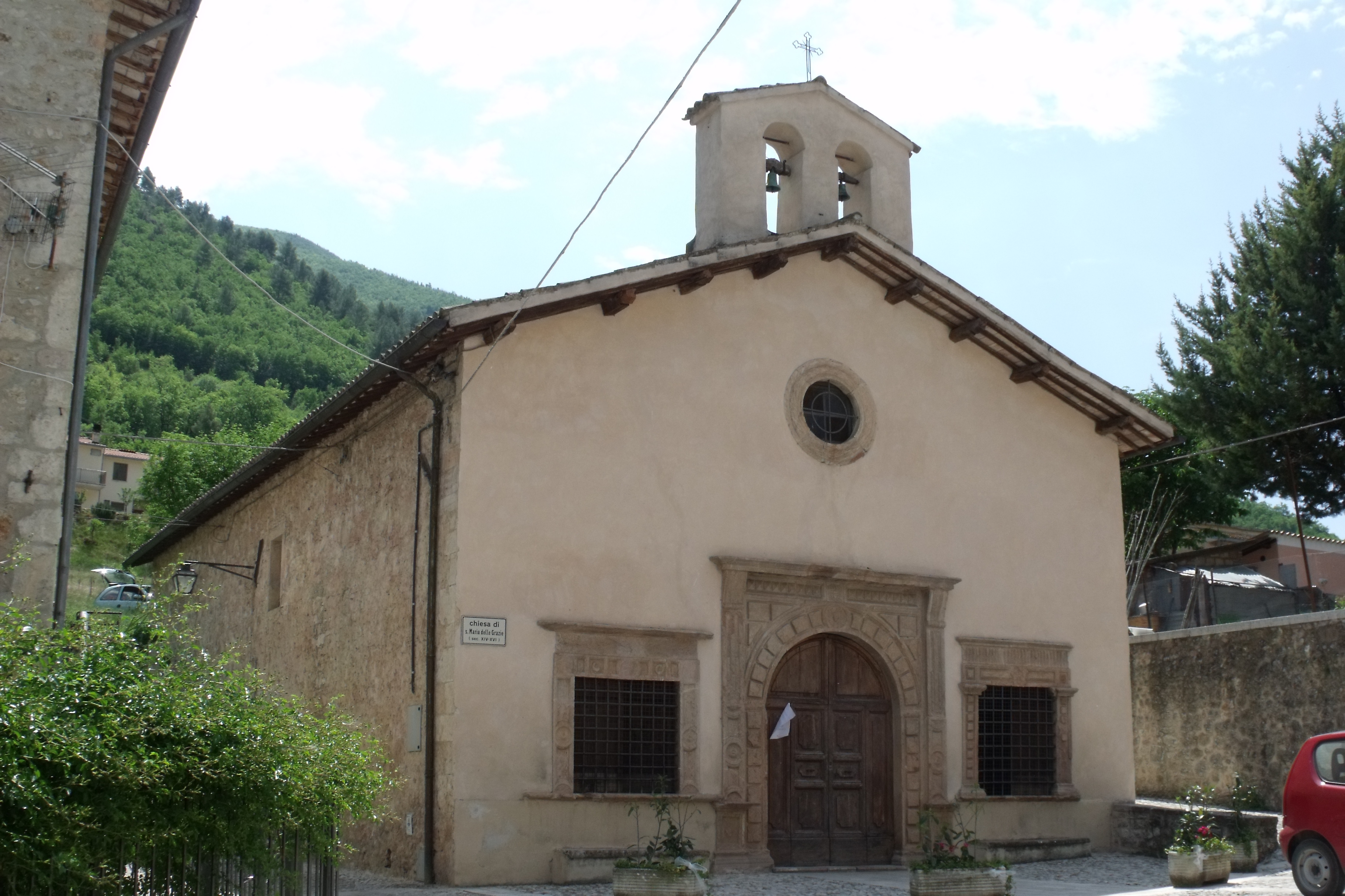 Church Chiesa di Santa Maria delle Grazie in Sant’Anatolia Di Narco, Valnerina, Province of Perugia, Umbria, Italy